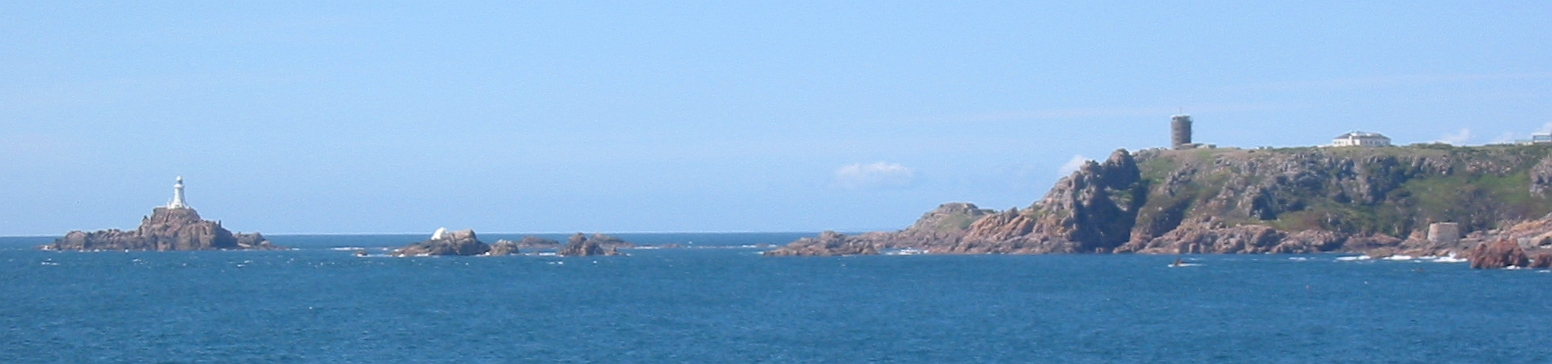 Jersey seen from the ferry